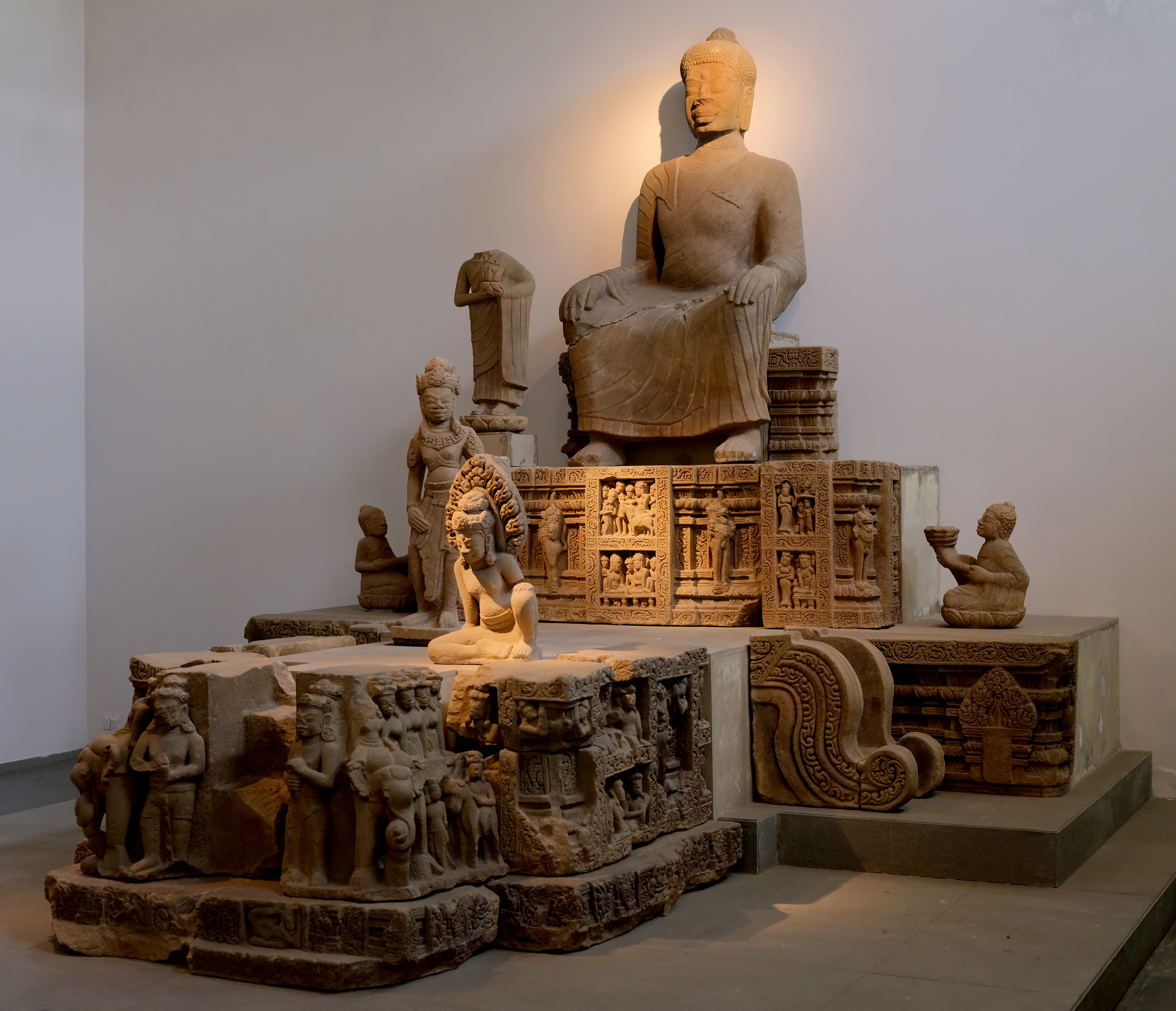 Cham sculpture at the Museum of Cham Sculpture, Da Nang, Vietnam.